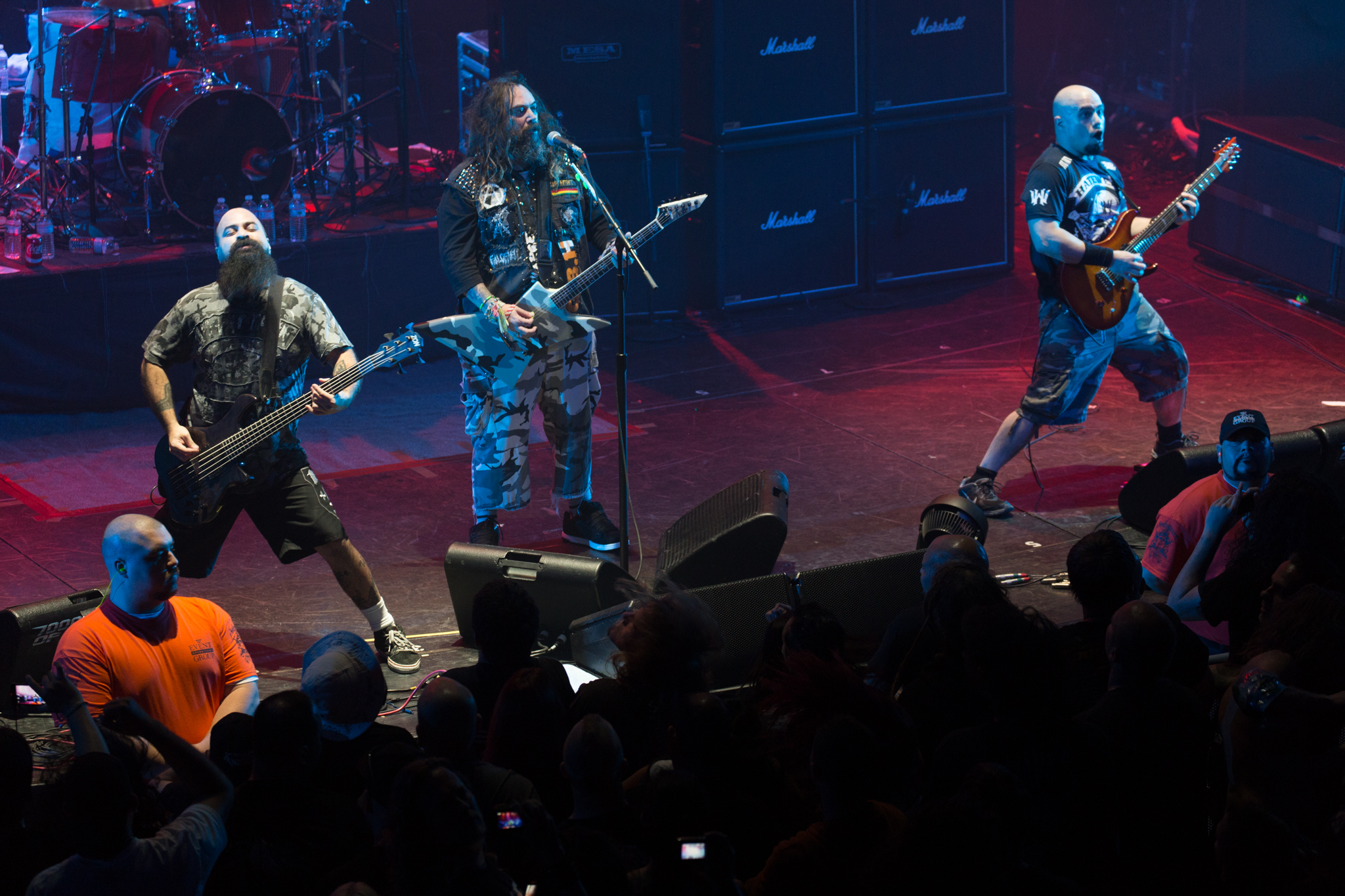 Soulfly performing at 70.000 tons of metal, january 2015